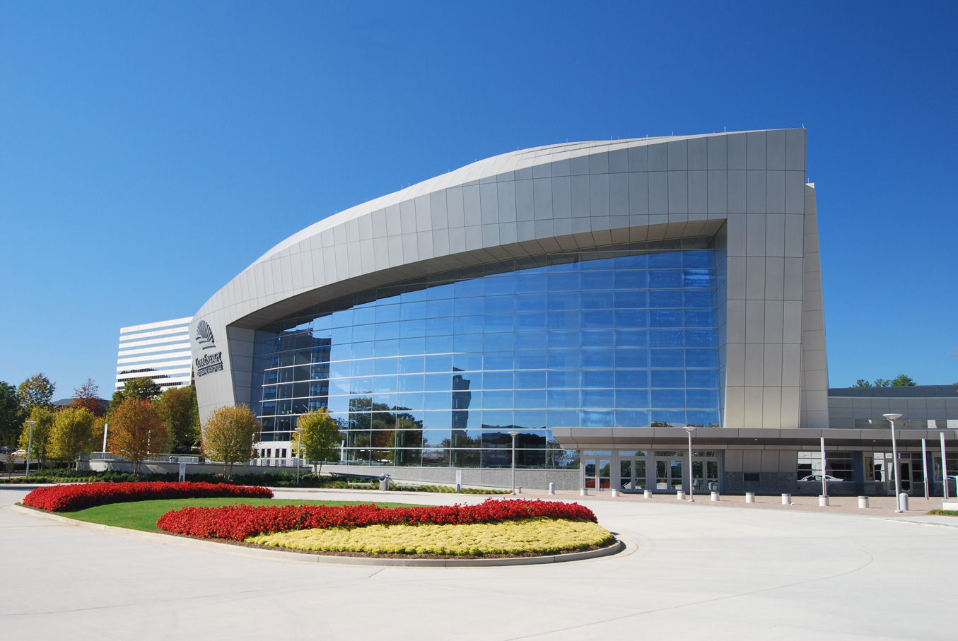 View from the motor courtyard of the Cobb Energy Performing Arts Centre, located at Cumberland in Cobb County in metropolitan Atlanta, Georgia.